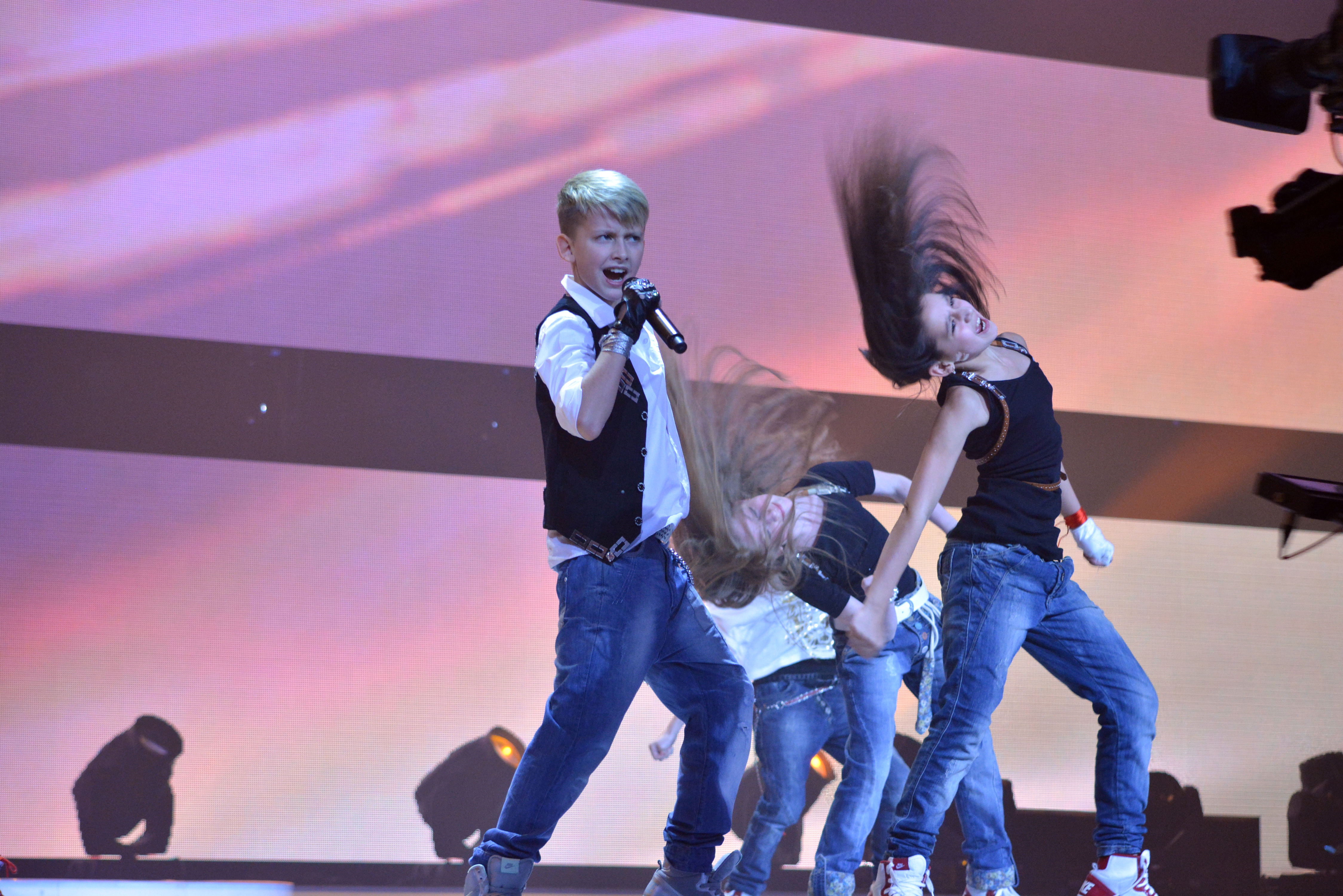 JESC 2013 (Belarus) Ilya Volkov at rehearsal